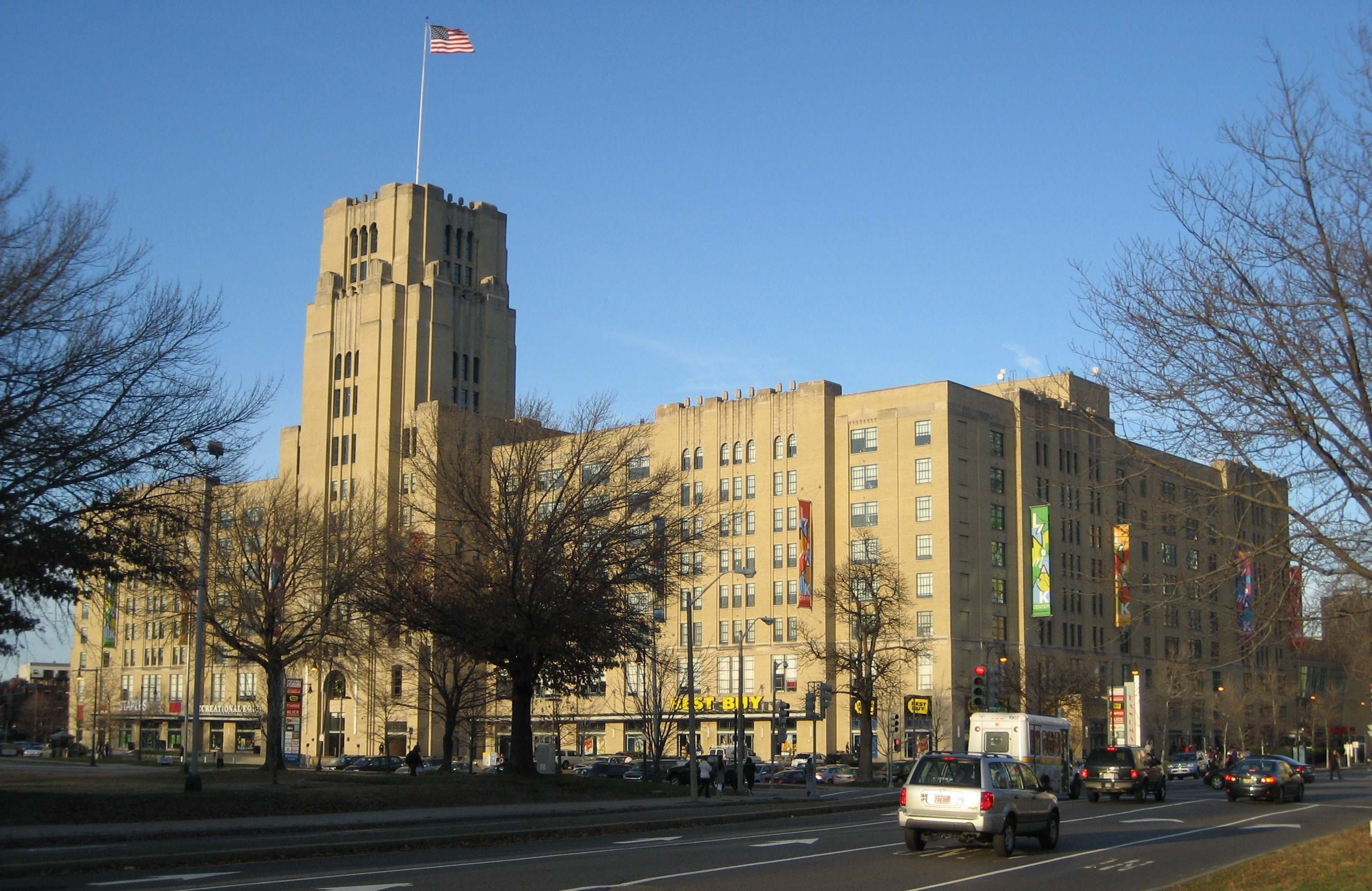 The Landmark Center, formerly a Sears, Roebuck and Company warehouse and distribution center, located in Boston.